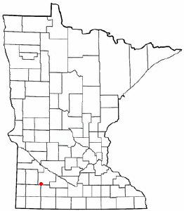 Map of Minnesota counties with a dot on Walnut Grove.